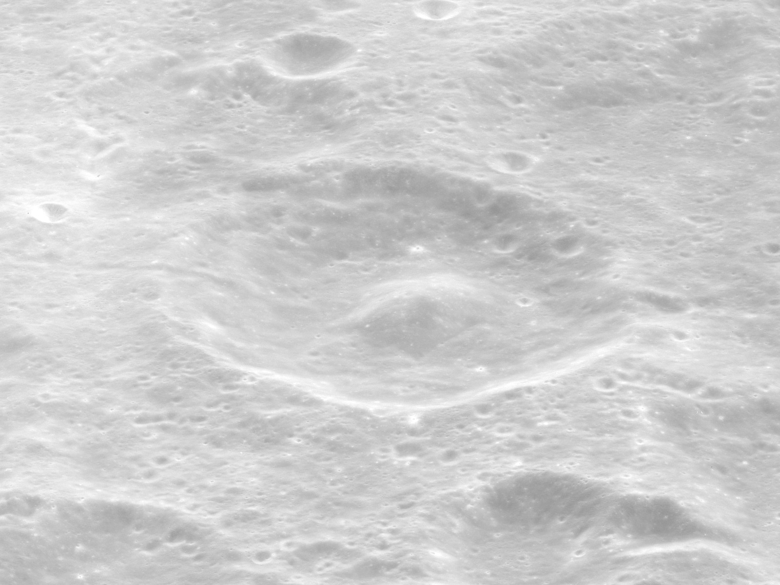 Oblique view of Behaim crater, on the moon. Taken by Apollo 17 panoramic camera during Trans-Earth Injection. Rotated so foreground is at bottom, and brightness and contrast adjusted, using GIMP.